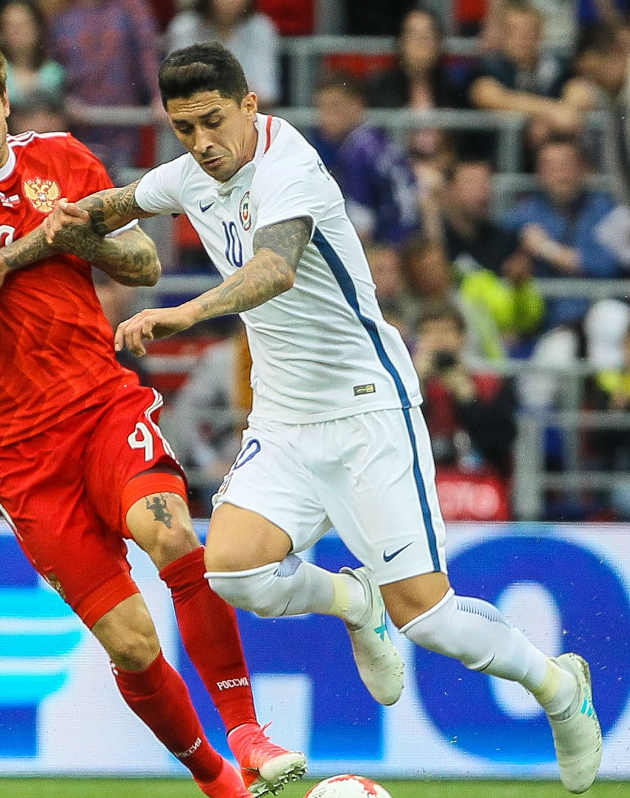 Pedro Pablo Hernández